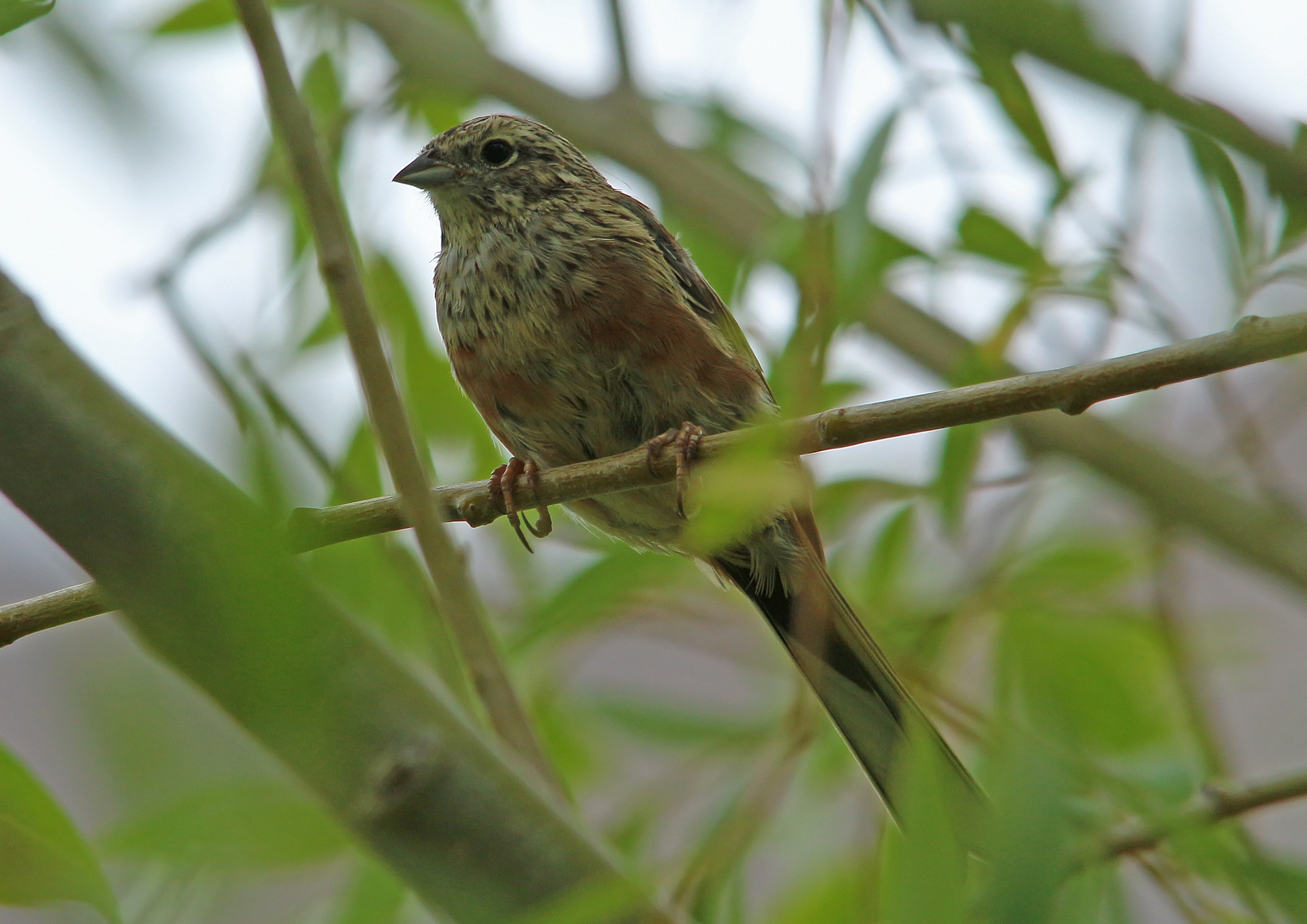 Chestnut-eared Bunting (Emberiza fucata) captured at Darkut, Yasin, Gilgit-Baltistan, Pakistan with Canon EOS 650D